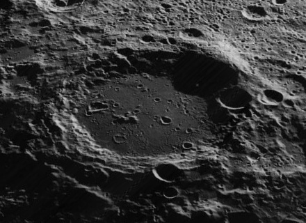 Oblique view of Zeeman, on the far side of the moon, facing west.